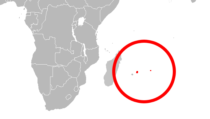 Range map of Raphinae.